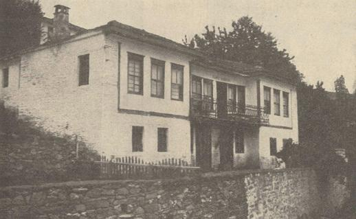 Tomalevski family house in Krushevo. Today a museum in Republic of Macedonia